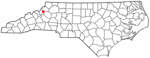 Category:North Carolina Dot Maps